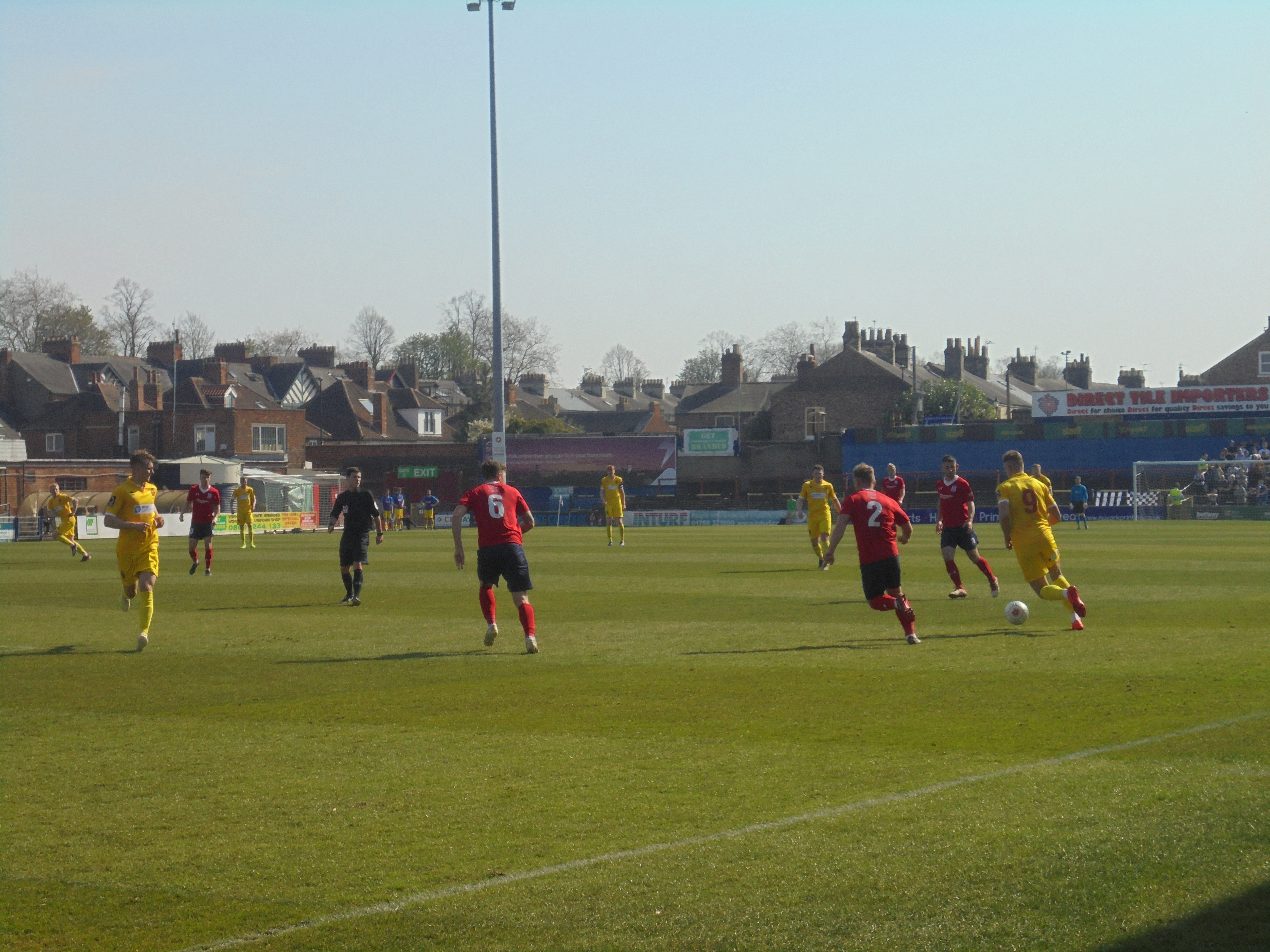 York City v Spennymoor Town. The Good Friday fixture was played on the 19th of April 2019 and finished York City 2 - Spennymoor Town 3; a low point for the once third-tier Minstermen.